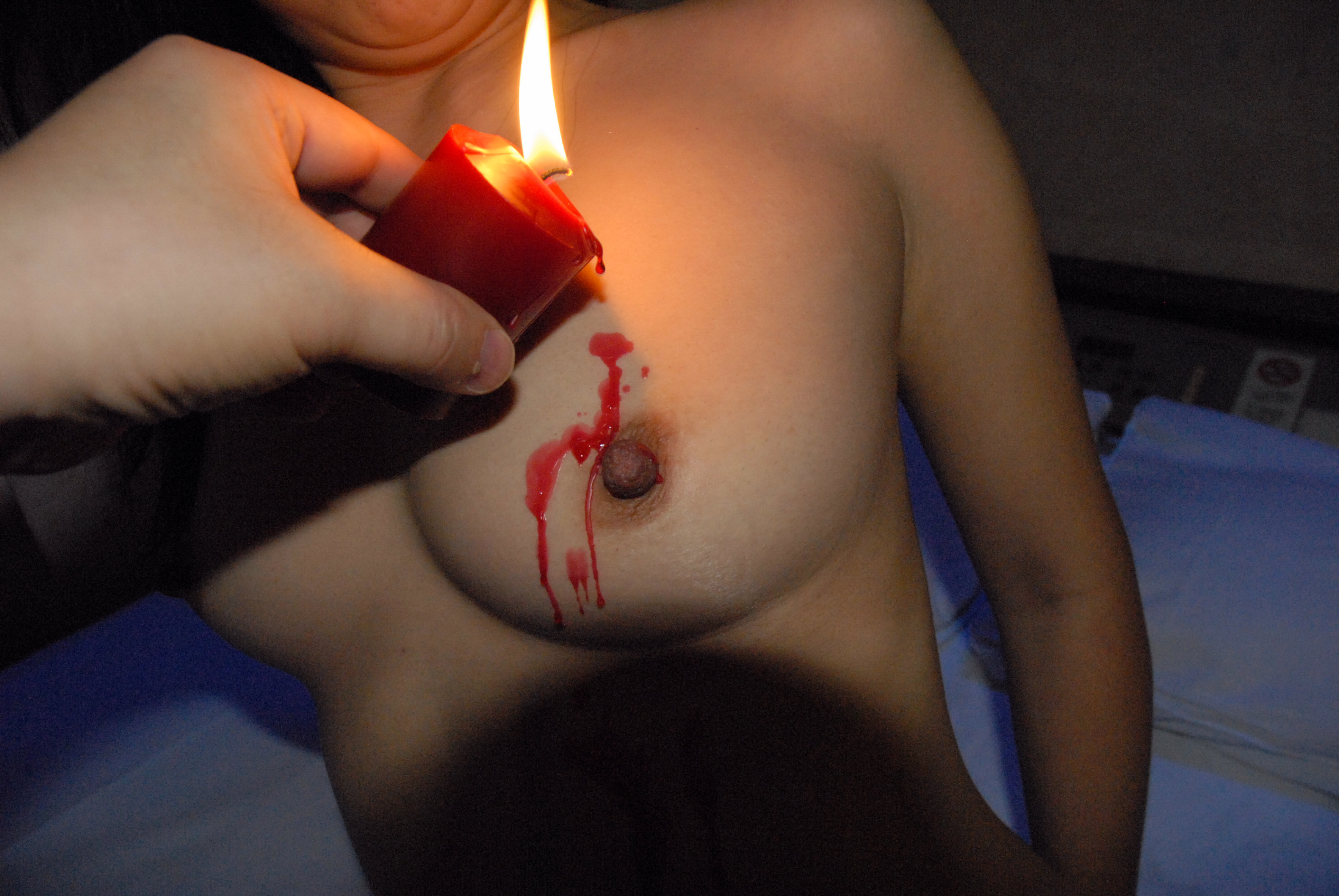 Wax play on nipple.